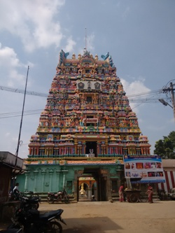 கும்பகோணம் சக்கரபாணி கோயில் Kumbakonam Chakrapani Temple